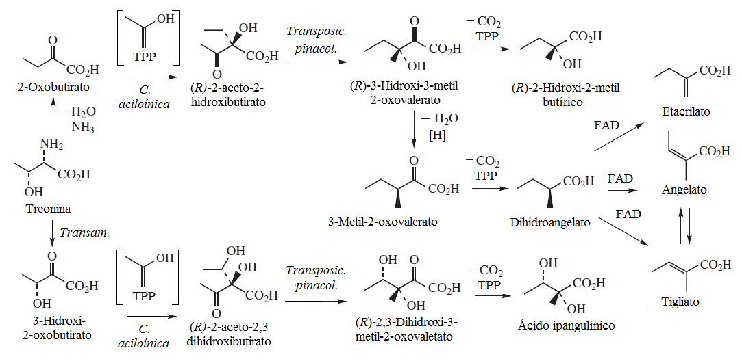 Necic acids biosynthesis: oxobutyric acids derivatives